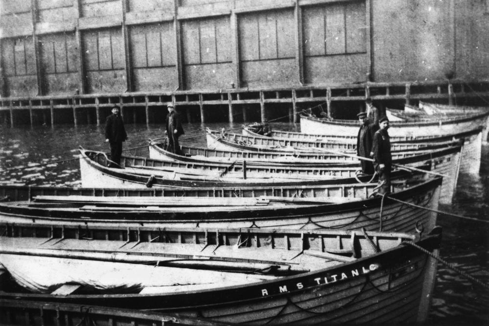 Rescued lifeboats, all that is left from the great ship Titanic, New York, 1912